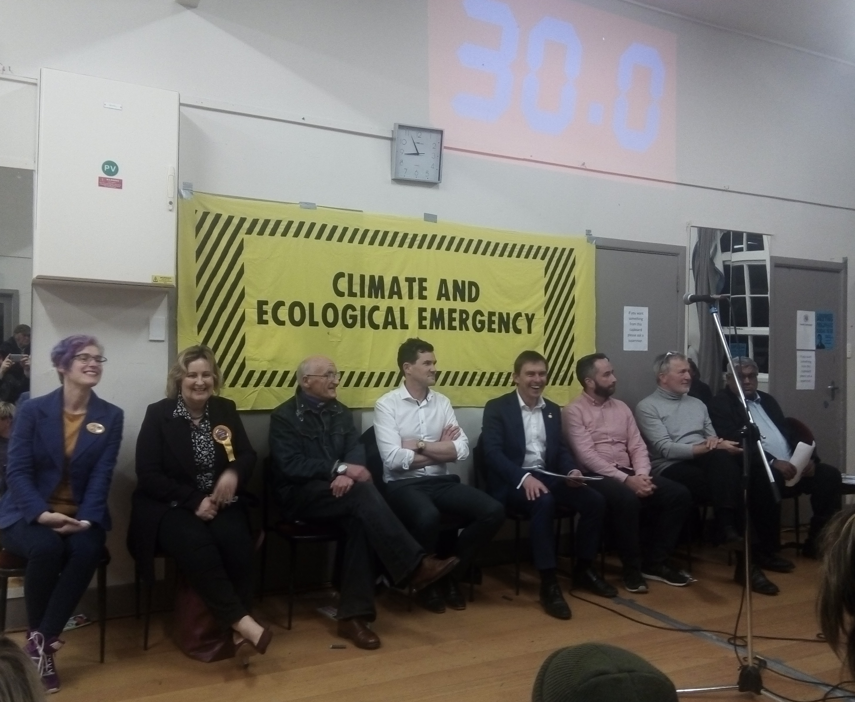 Wellington mayoral candidates at the Aro Valley candidates meeting